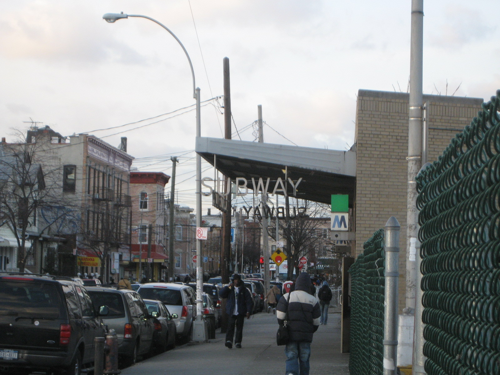 Beautiful station sign. Turn right and you're in a pretty OK neighborhood; turn left and you're quite rapidly transported into hell.